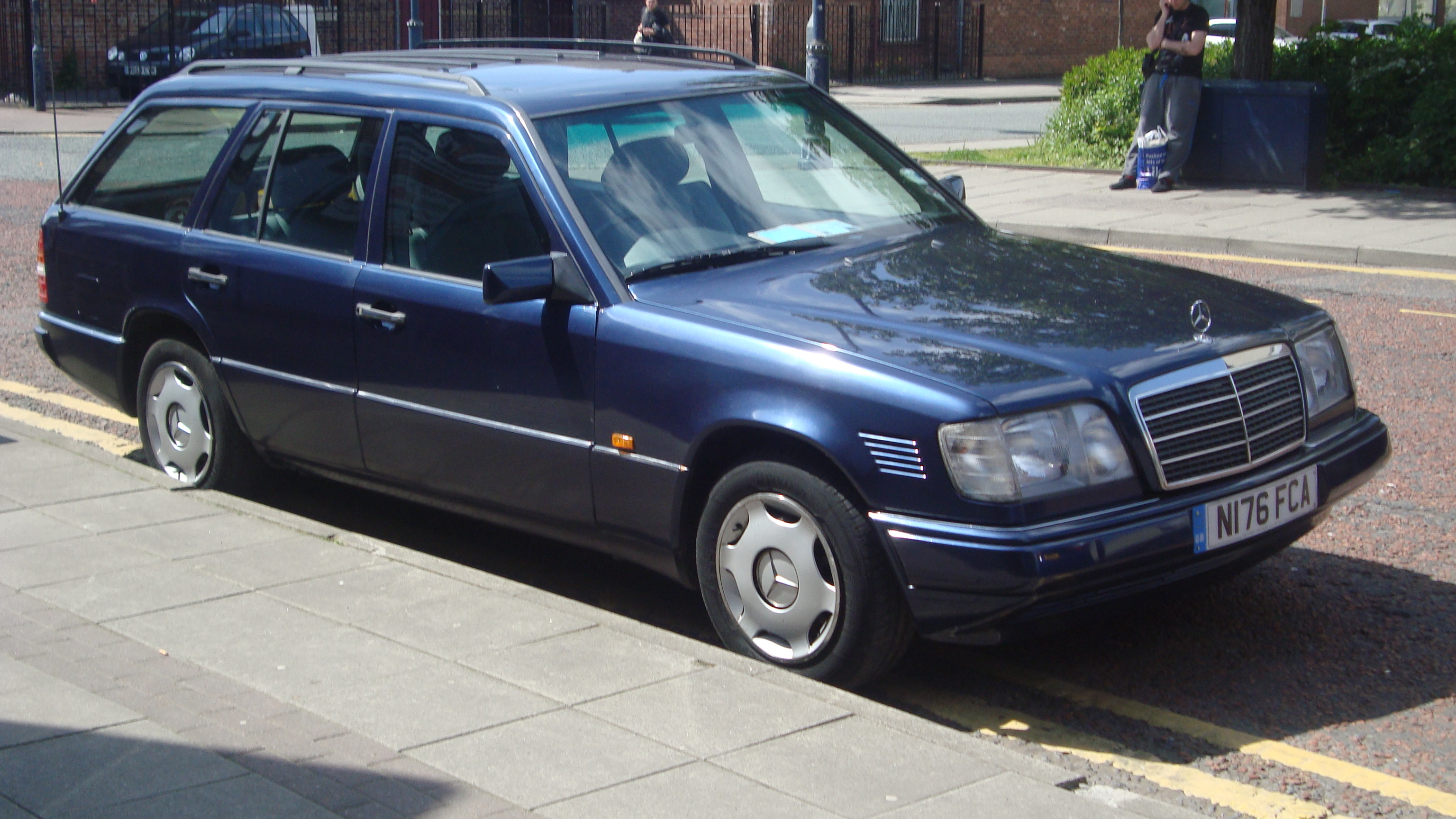 I love these, this particular one was registered on new years day 1996